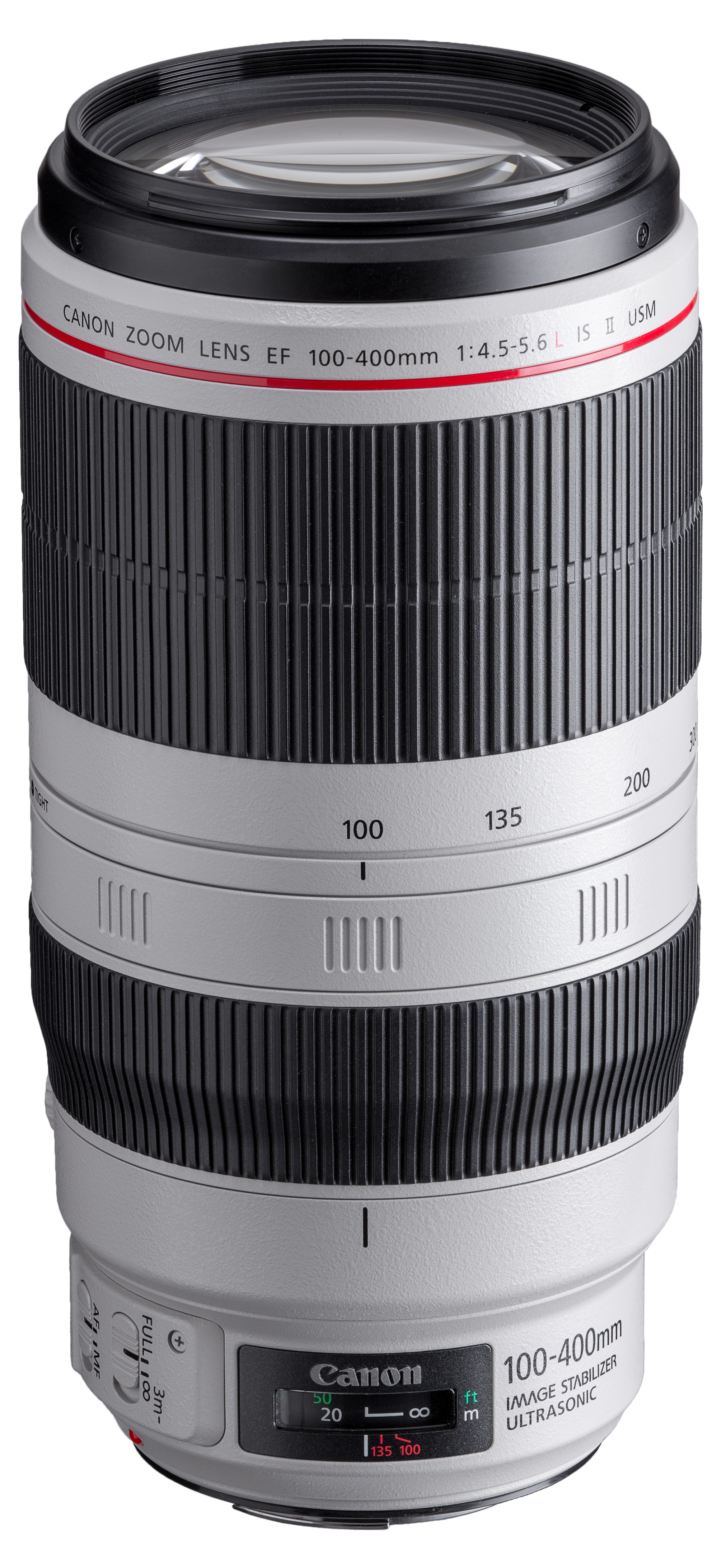 Studio photograph focus stack of a Canon EF 100-400mm f/4.5-5.6L IS II USM DSLR zoom lens.